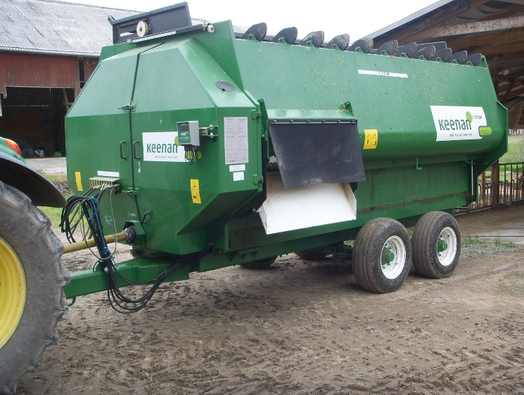 A Keenan Balehandler feed mixer. Capacity: some 4 tons of ready-made feed.